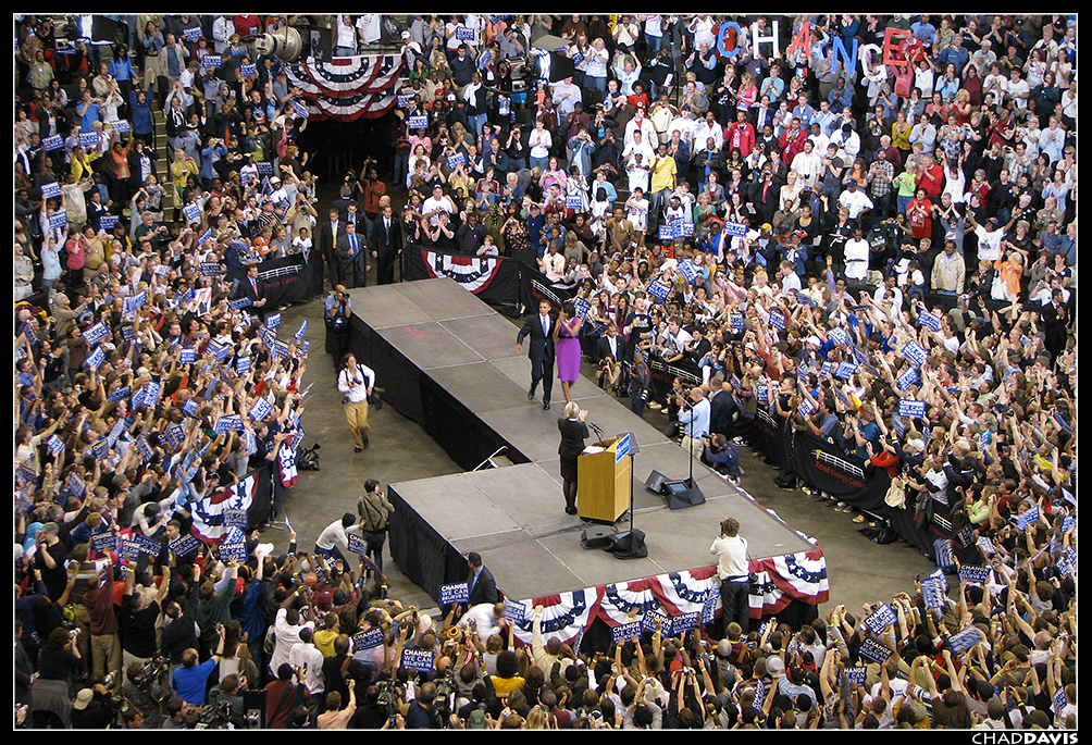 Barack Obama and Michelle Obama enter stage at Xcel Energy Center on June 3, 2008 when Barack clinched the Democratic nomination.